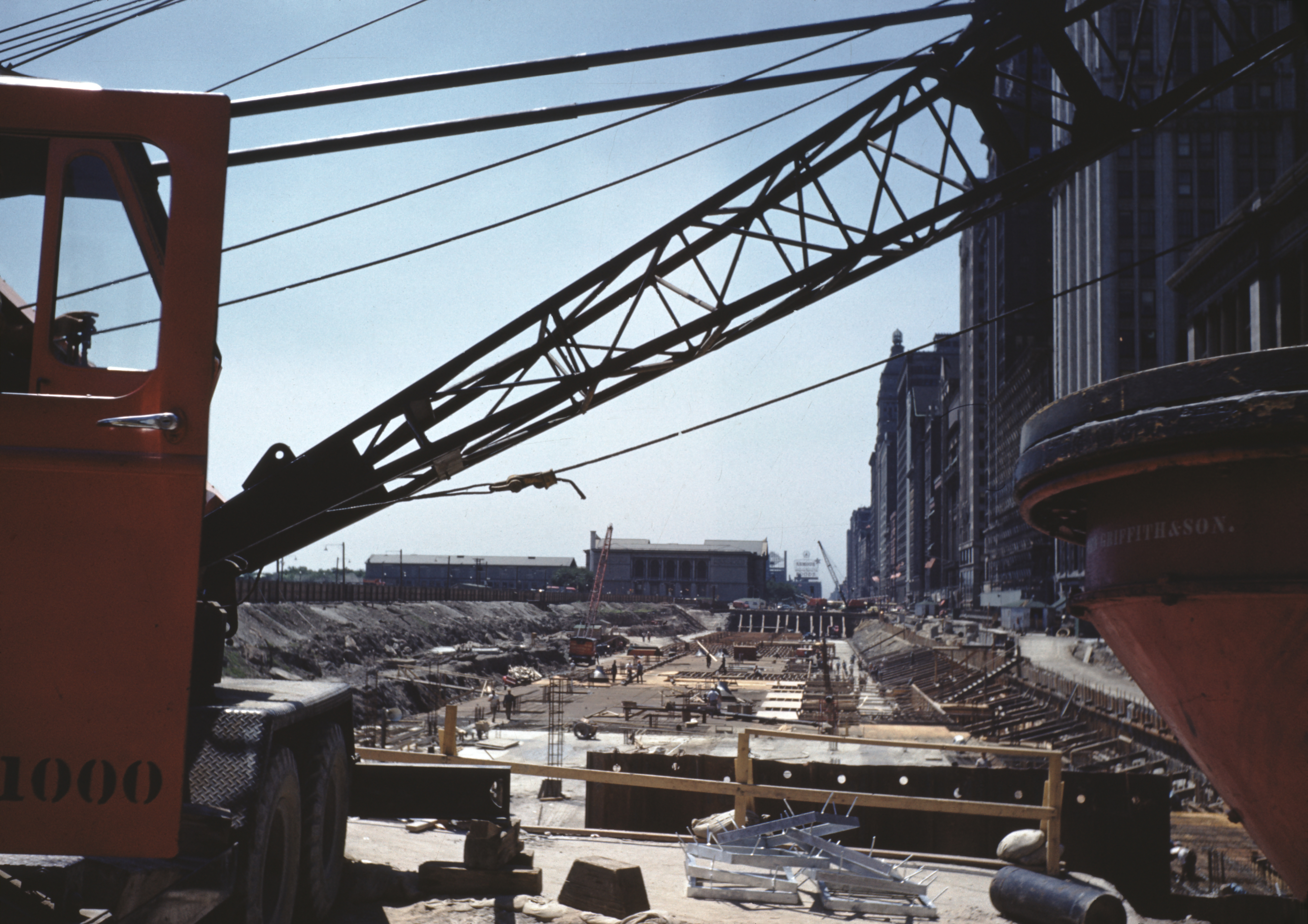 Photography by Victor Albert Grigas (1919-2017)